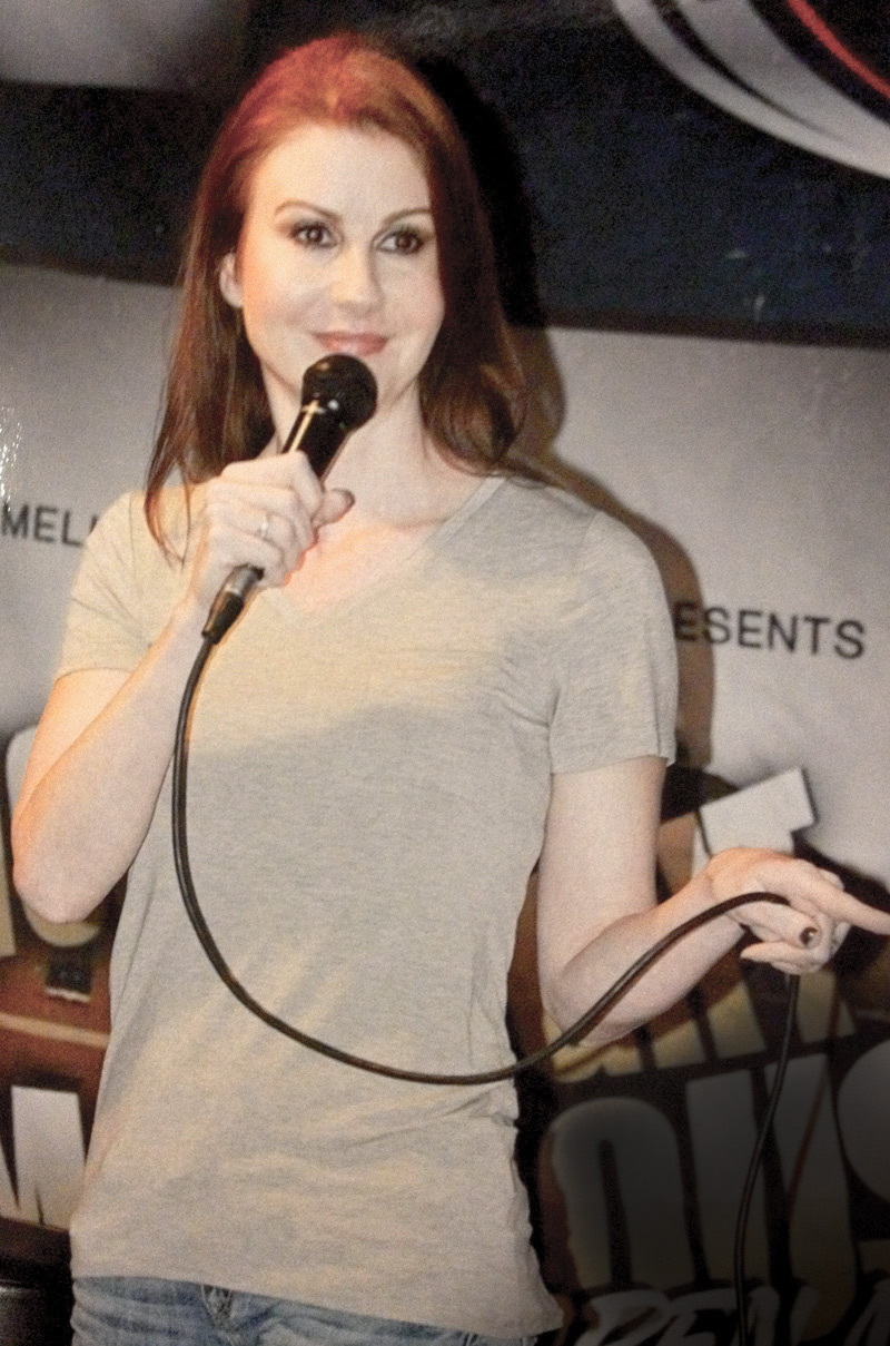 Michele Mahone performs stand up in Los Angeles